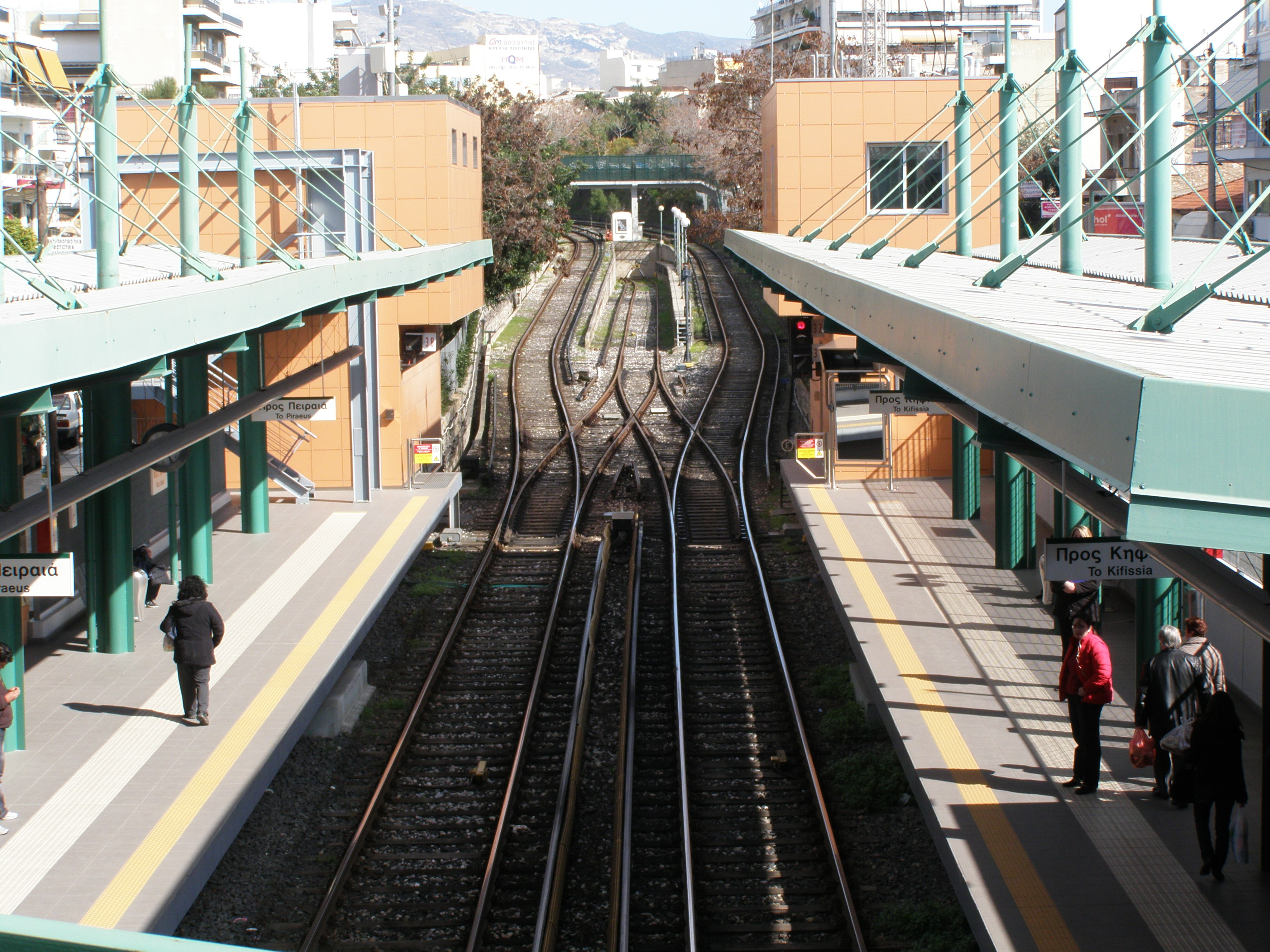 Athens ground metro station "Nea Ionia"